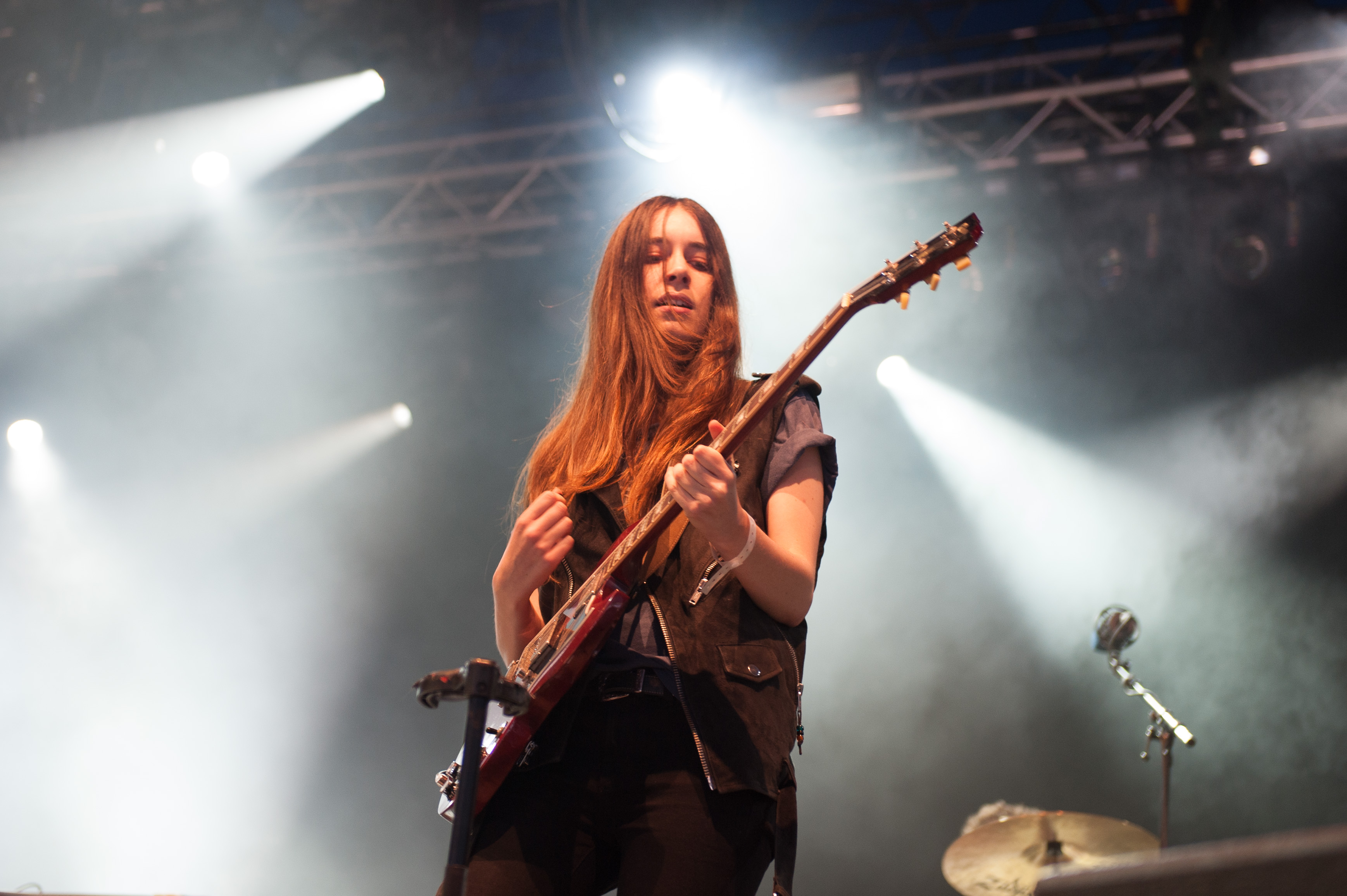 Danielle Haim at Way Out West 2013 in Gothenburg, Sweden